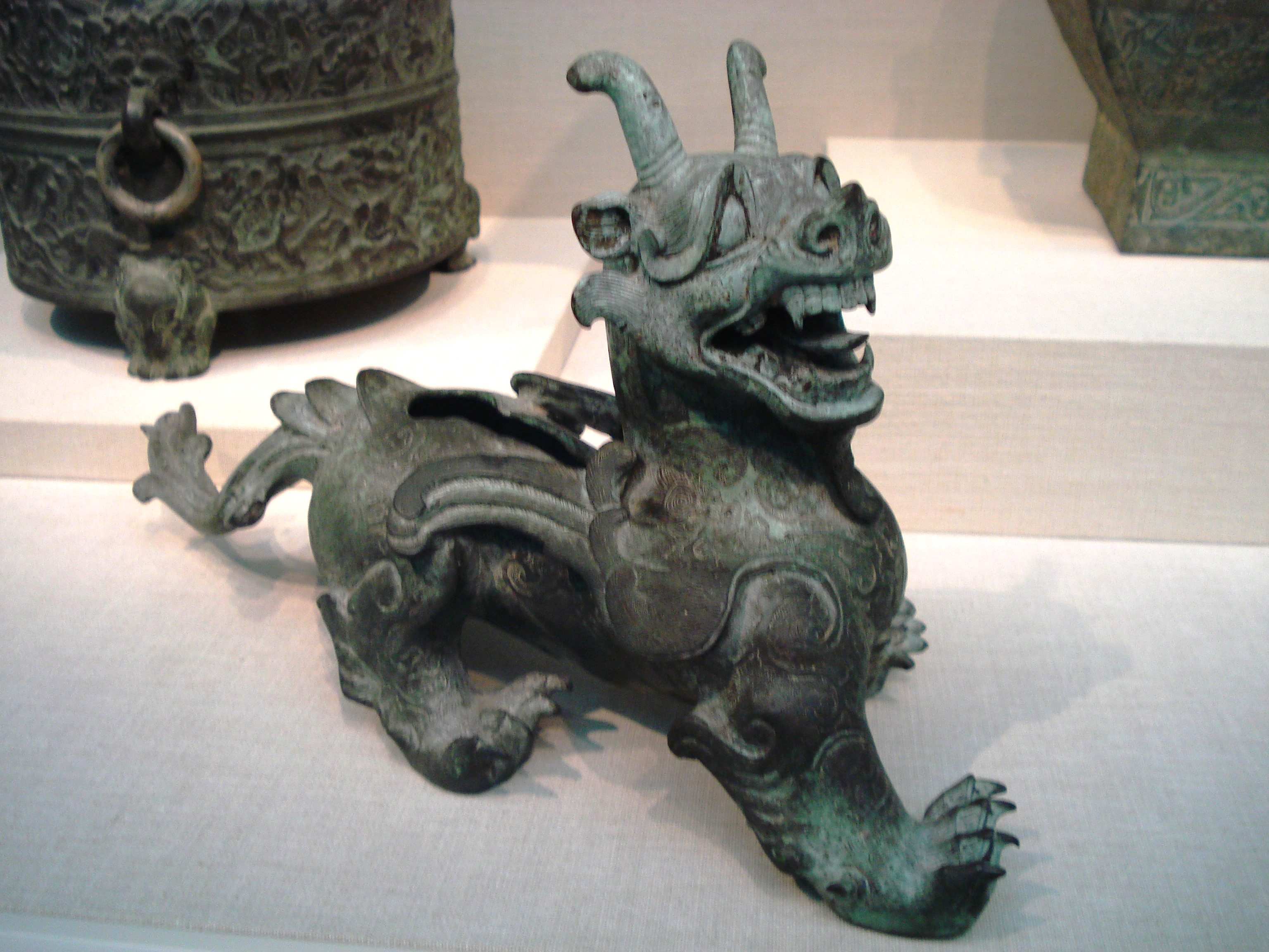 A Chinese bronze statue of a mythological chimera (a lion-like creature with wings, horns, fangs, and claws), from the Eastern Han Dynasty, dated 1st century AD.